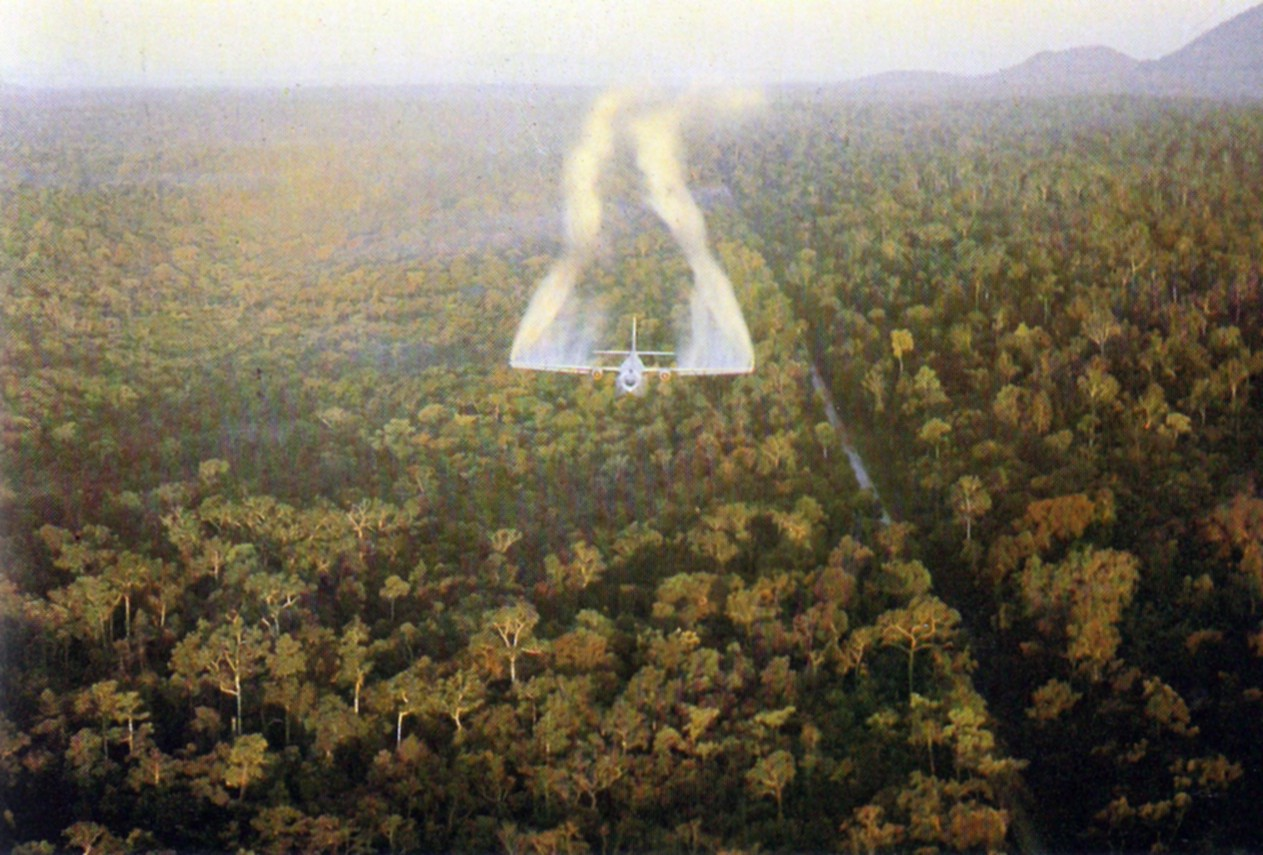 A U.S. Air Force Fairchild UC-123B Provider "Ranch Hand" aircraft spraying defoliant next to a road in South Vietnam in 1962. "Operation Ranch Hand" was a U.S. Military operation during part of the Vietnam War, lasting from 1962 until 1971. It involved spraying an estimated 72 mio. ltr. (19 mio. US gal.) of (toxic) defoliants over rural areas of South Vietnam in an attempt to deprive the Viet Cong of vegetation cover and food. The USAF planes were marked as South Vietnamese Air Force (VNAF) planes.